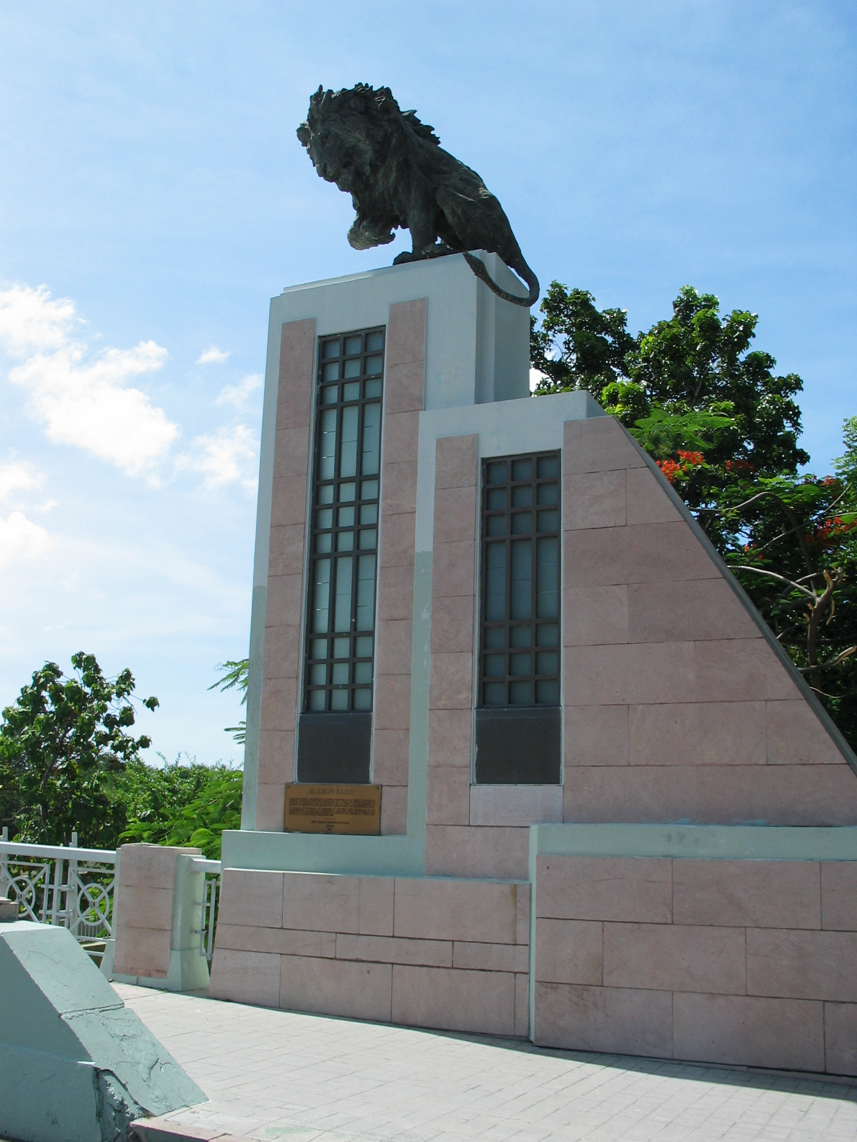 Leon Sabio, Puente de los Leones, Barrio Tercero, Ponce, Puerto Rico, mirando hacia el este (IMG 3314)